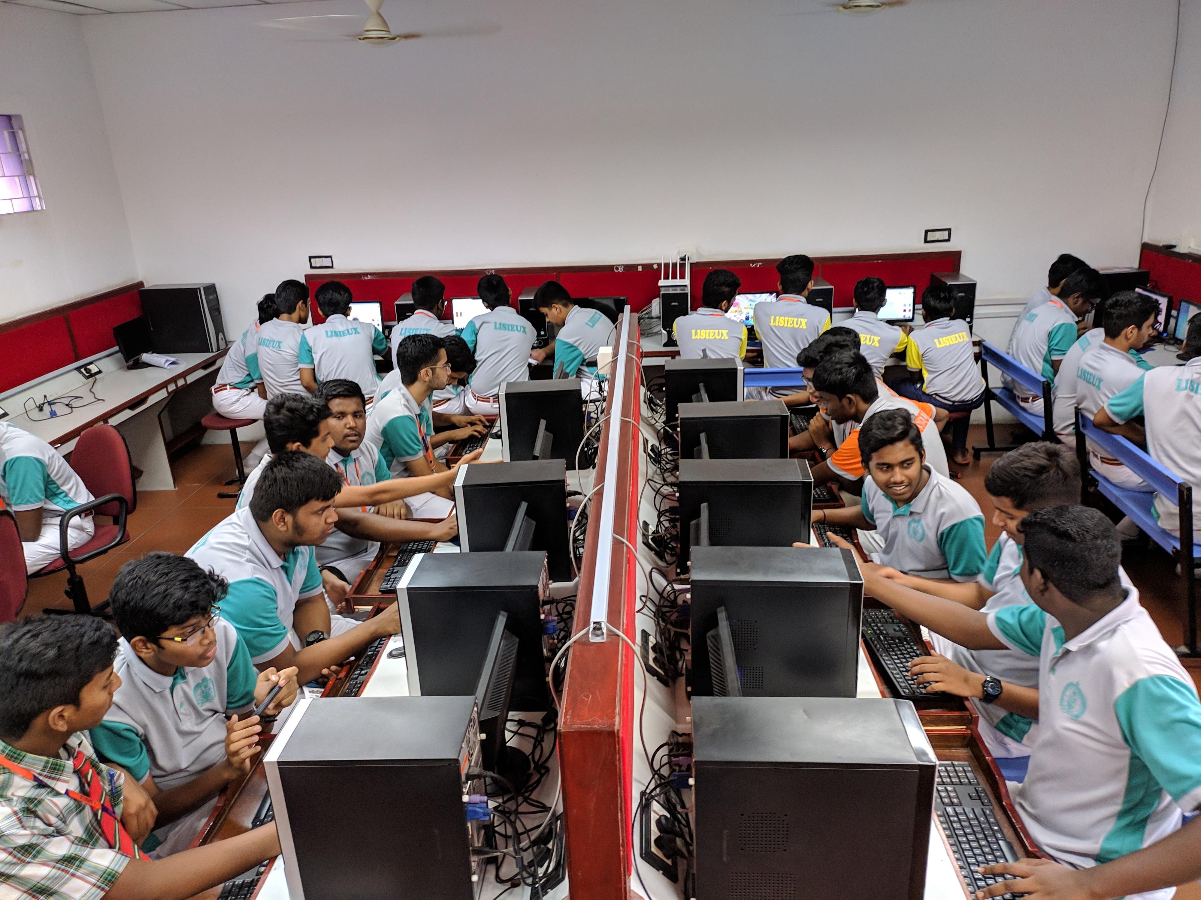 The level 1 of robotics class for High School students by TECHNOWIZ